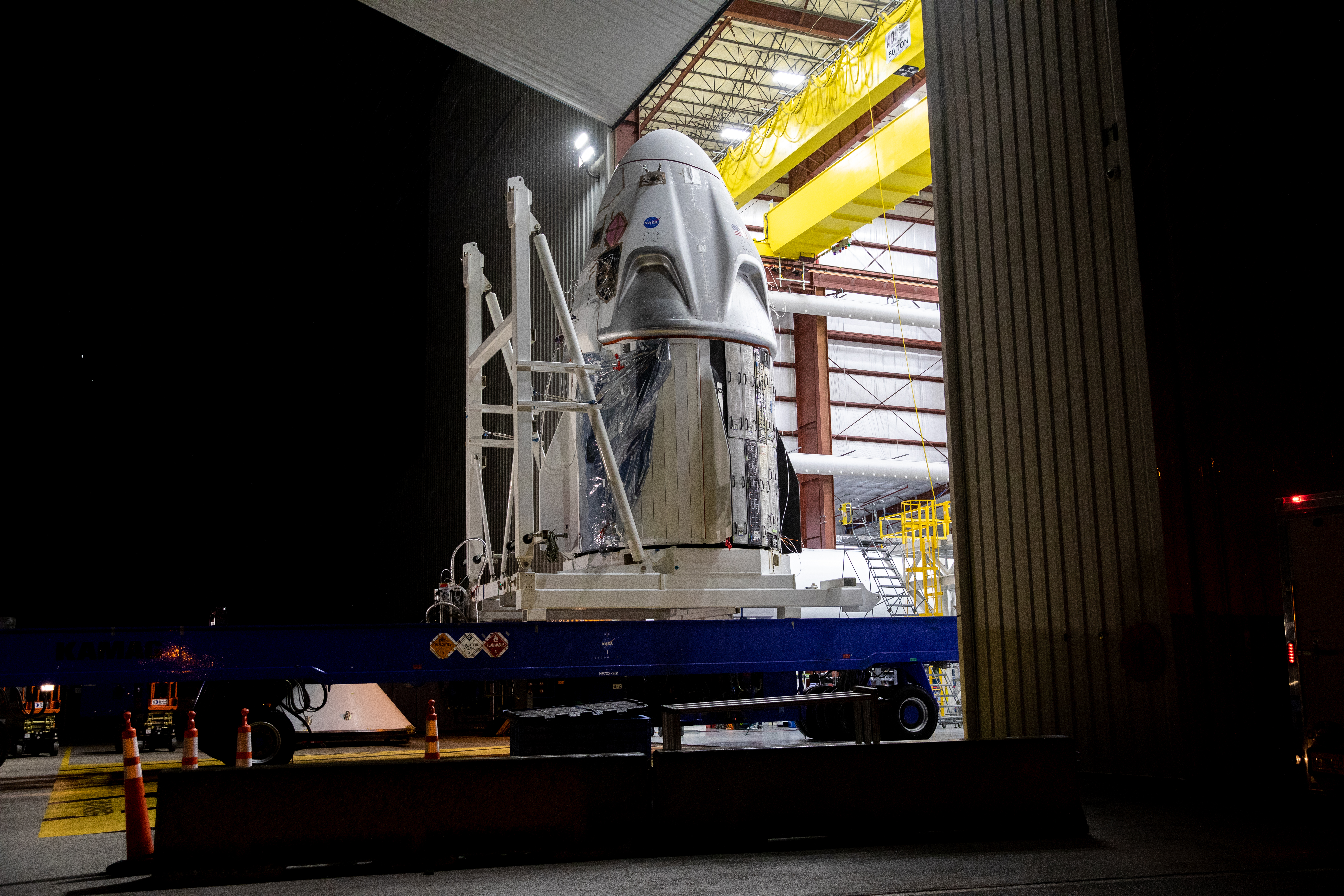 The SpaceX Crew Dragon spacecraft arrives at Launch Complex 39A at NASA’s Kennedy Space Center in Florida, transported from the company’s processing facility at Cape Canaveral Air Force Station on Friday, May 15, 2020, in preparation for the Demo-2 flight test.